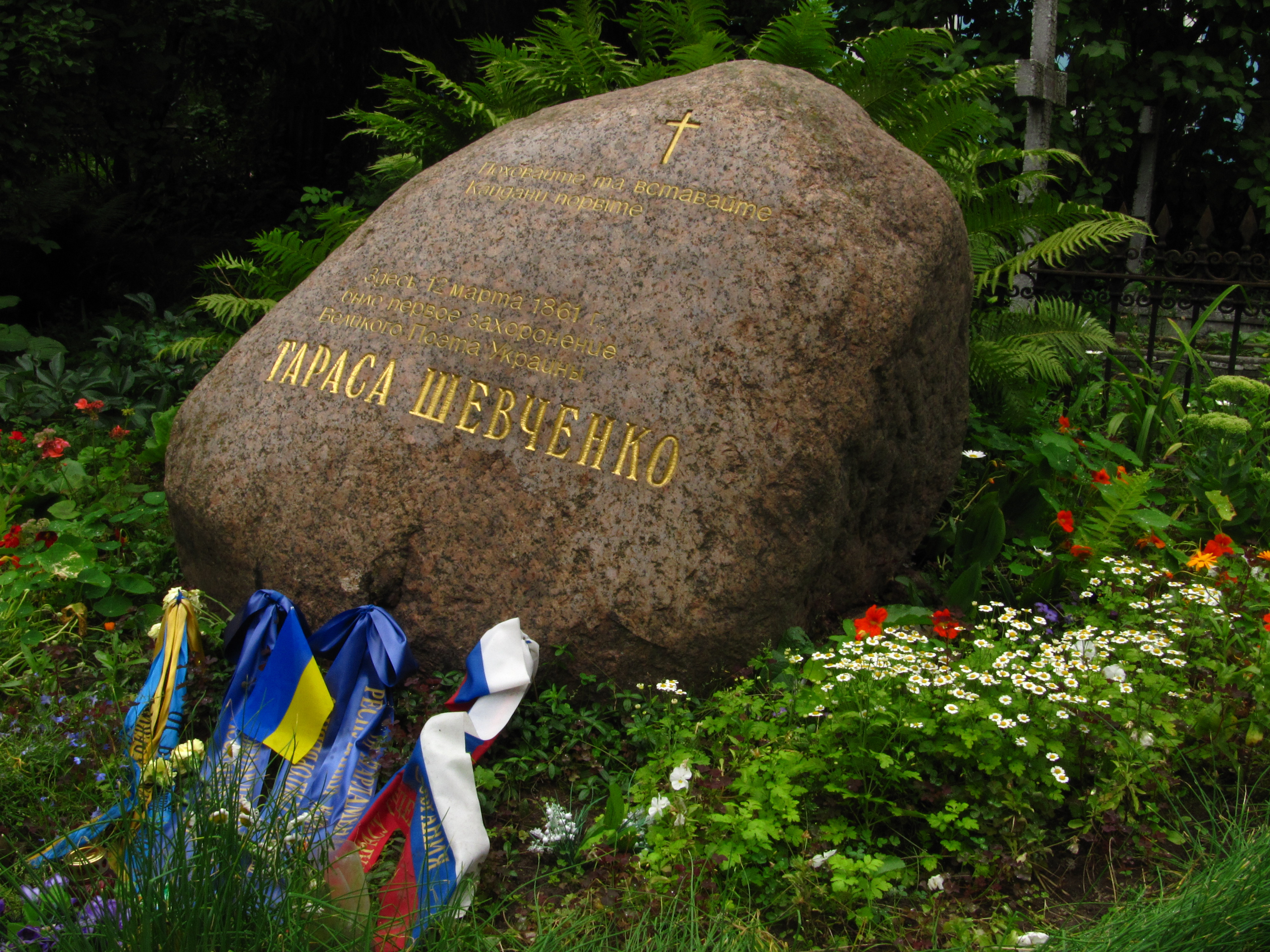 Taras Shevchenko's gravestone in Saint Petersburg.